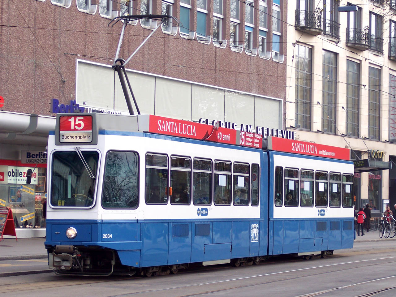 Trams in Zürich: A Be 4/6 "Tram 2000" approaches Bellevue on route 15.